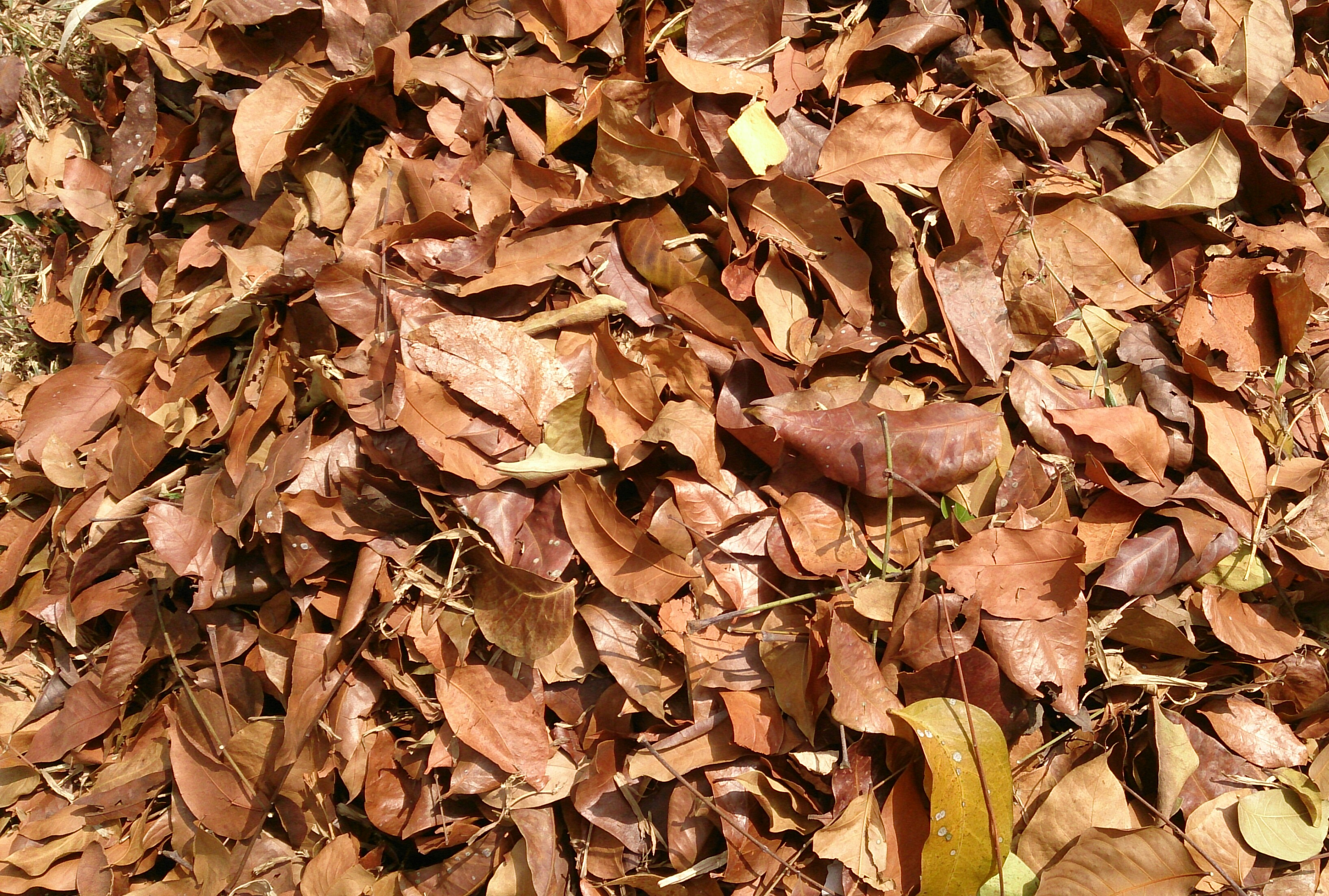 lots of dead leaves